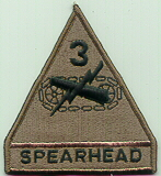 Field version of the 3rd Armored Division patch, used after WWII for use on Khakis and BDUs